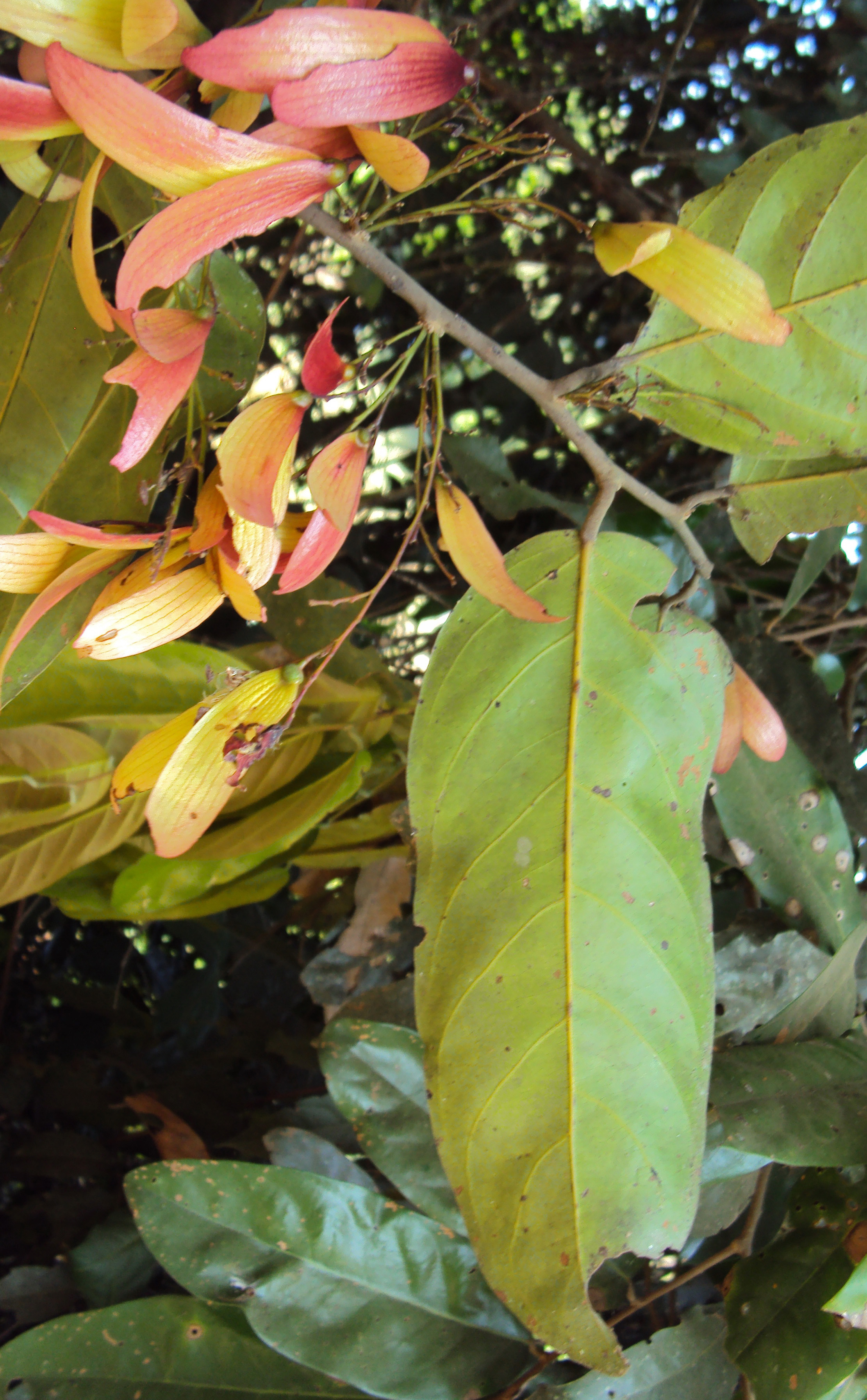 Hopea Ponga